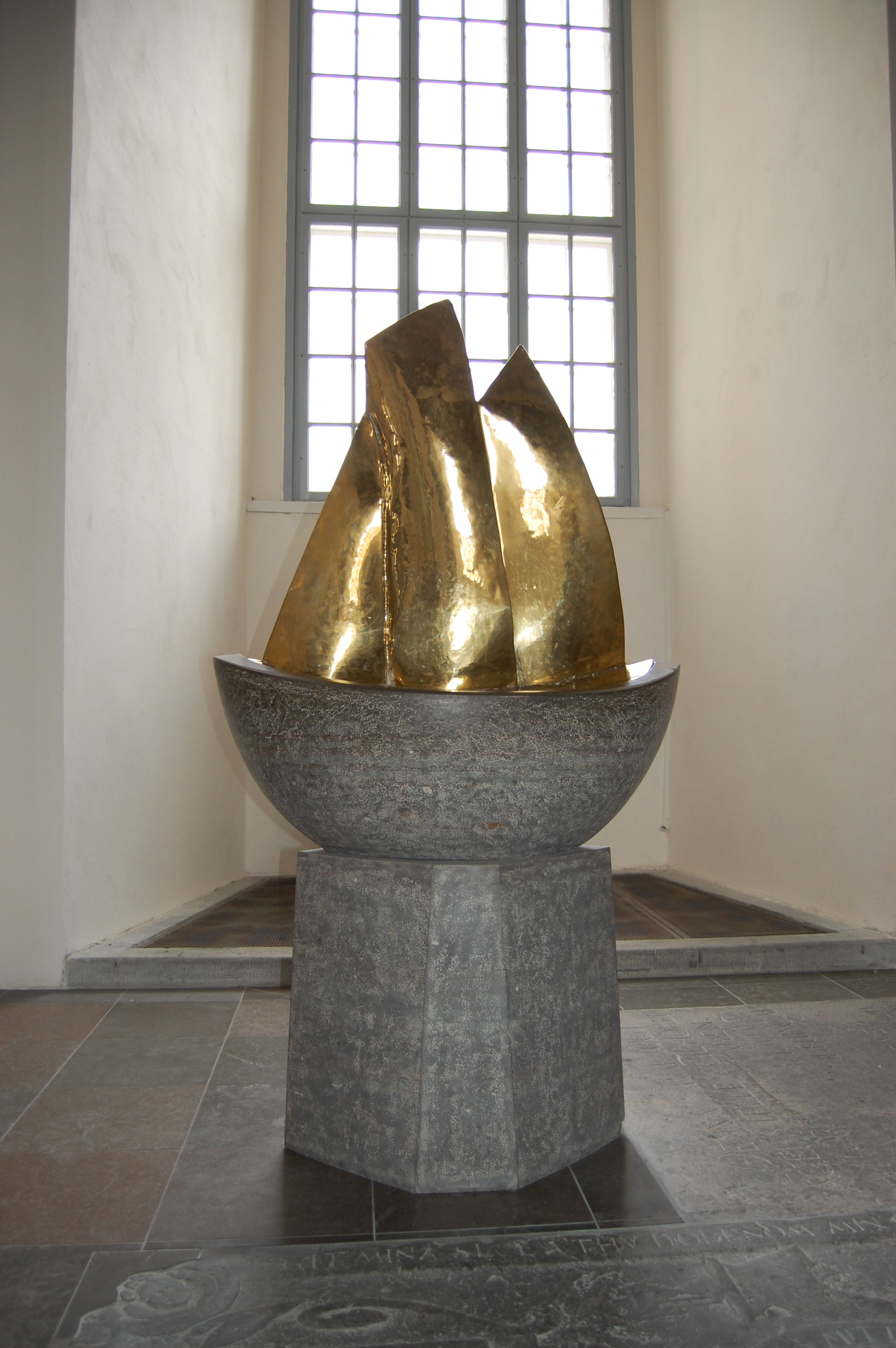 Kalmar Cathedral. The font in the form of a ship is the work of Erik Sand.